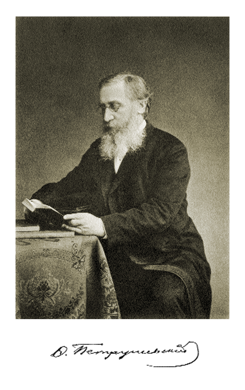 Photo of F. F. Petruschevsky